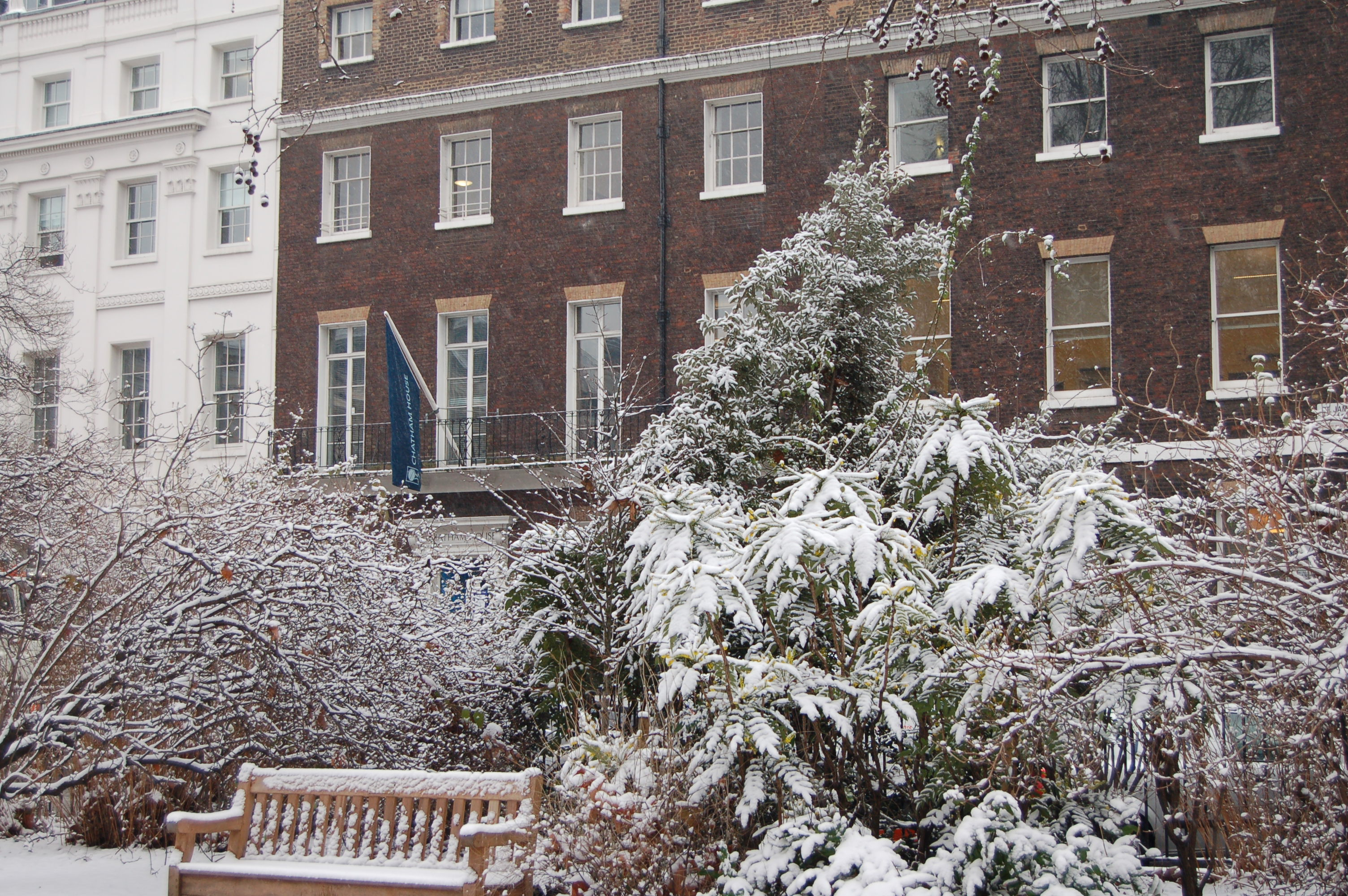 Chatham House in the snow